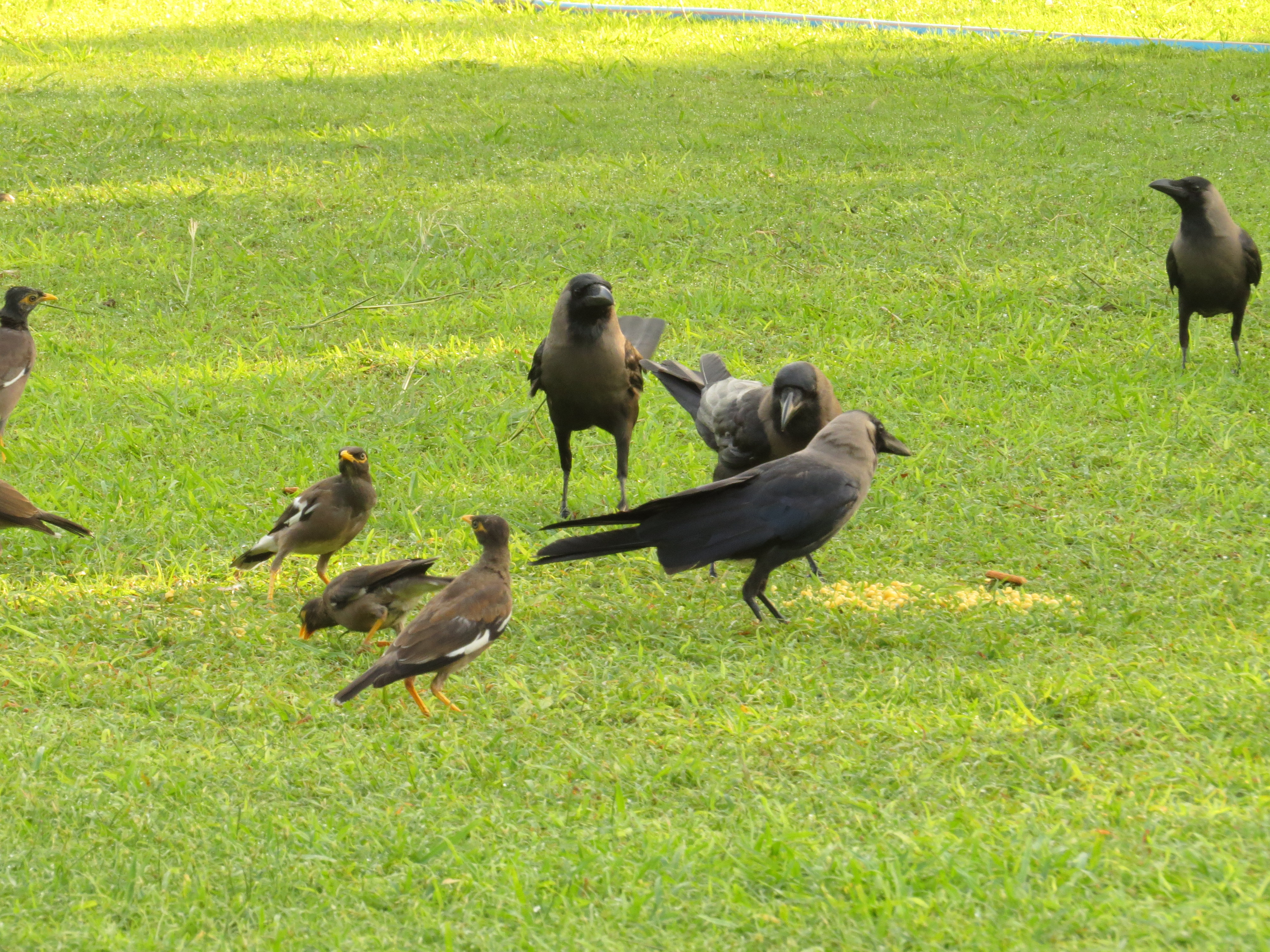 Corvus splendens Vieillot, 1817, House Crow, and Acridotheres tristis (Linnaeus, 1766), Common Myna, Buddha Jayanti Park, New Delhi, India, 19 September 2014